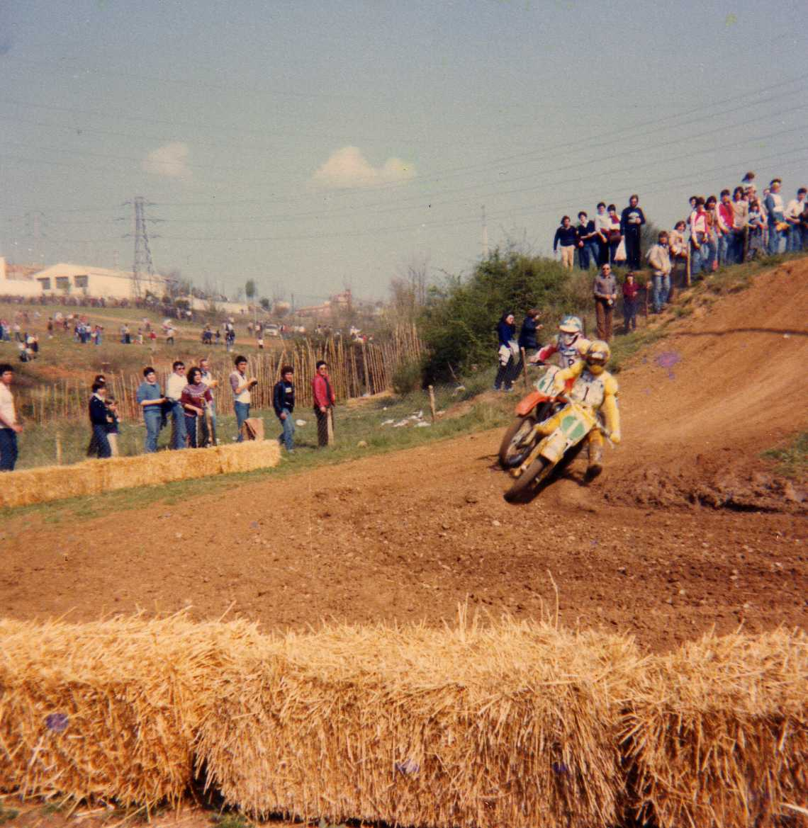 Georges Jobé (Suzuki #1) and Albert Ribó (SWM #18) at Circuit del Vallès, Sabadell-Terrassa (Catalonia), during the 1981 spanish MX GP 250cc.